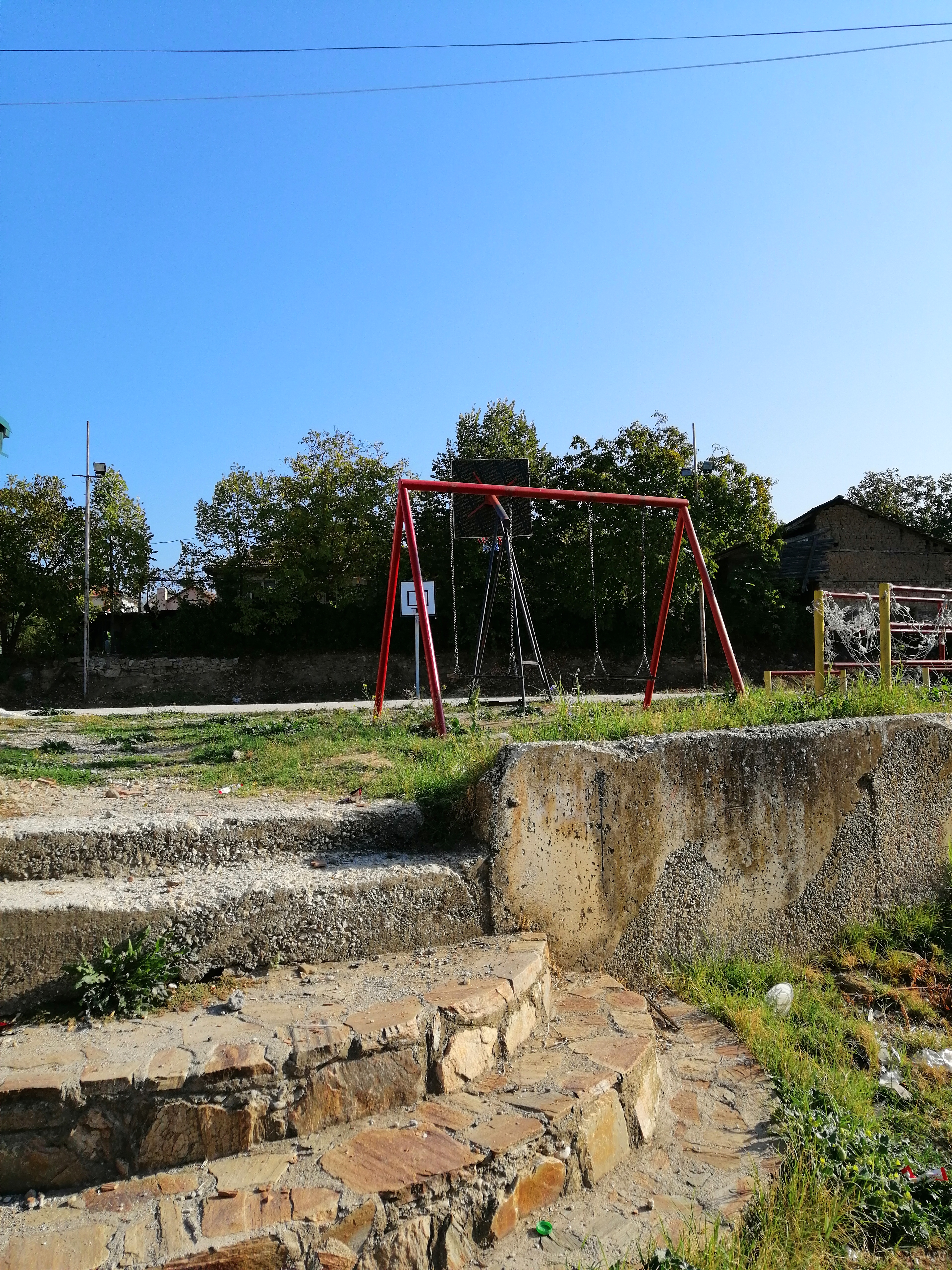 Playground in the village Brazda